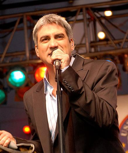 061219-N-2959L-102 Coronado, California - 2006 American Idol winner Taylor Hicks performs for the crowd during a holiday concert for service members and their families aboard the Nimitz-class aircraft carrier USS Ronald Reagan (CVN-76). The United Service Organizations (USO) sponsored the event that also included performances by comedians Josh Blue and John Heffron.